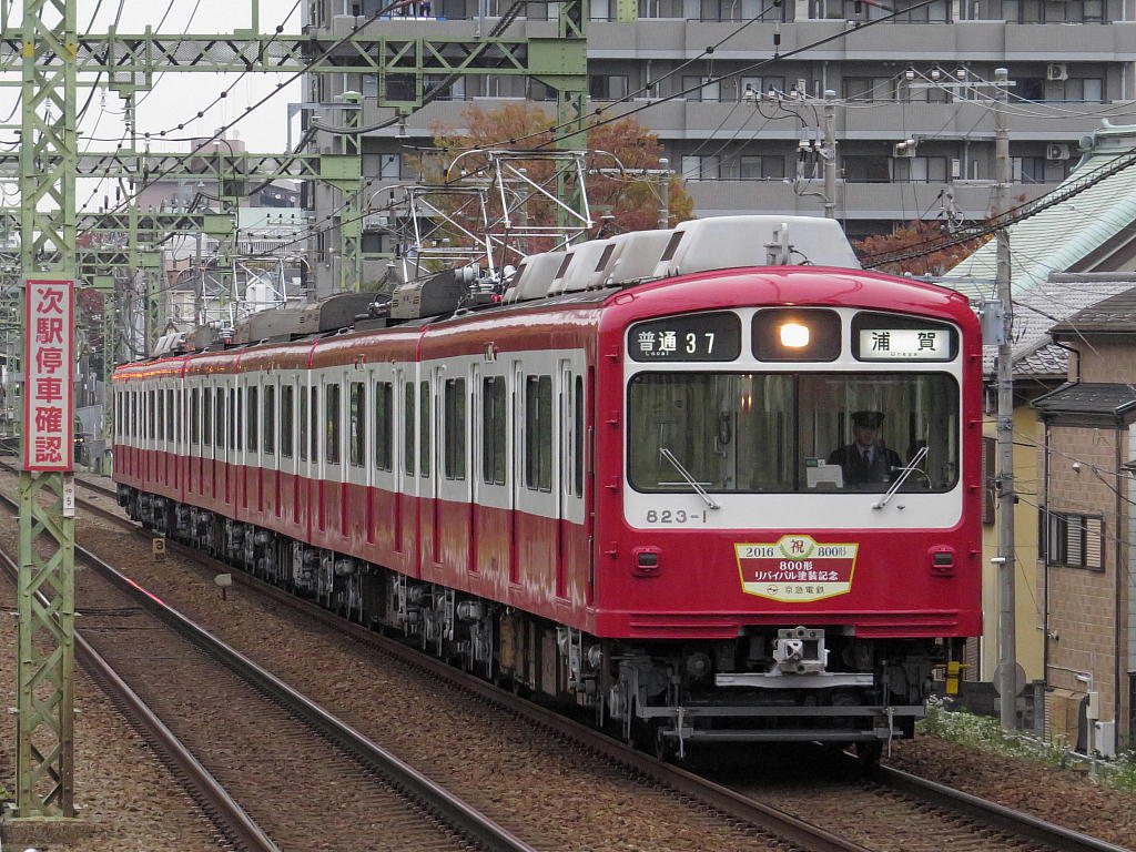 Keikyu 800 series EMU set 823 in "revival livery" approaching Nakakido Station on the Keikyu Main Line